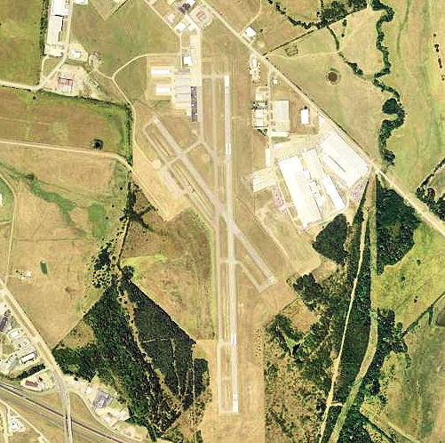 USGS digital orthophoto of Terrell Municipal Airport in Texas